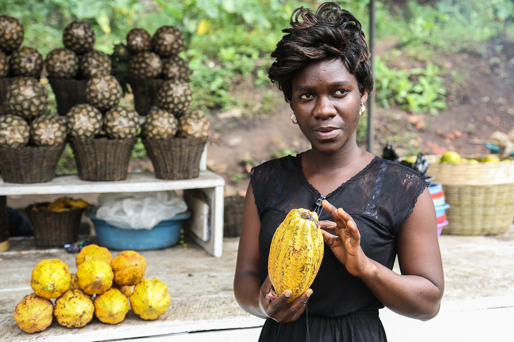 Cacao and pineapple in Ghana This is an image of food from Ghana